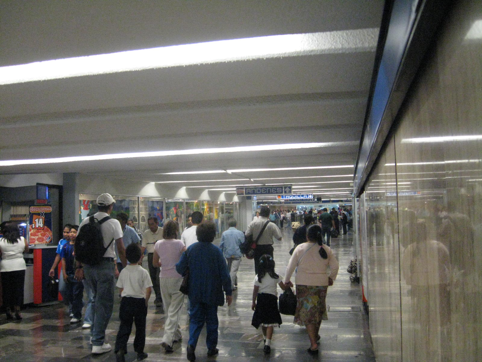 One of the hallways leading into Metro station Zocalo on Line 2 of the Mexico City Metro system